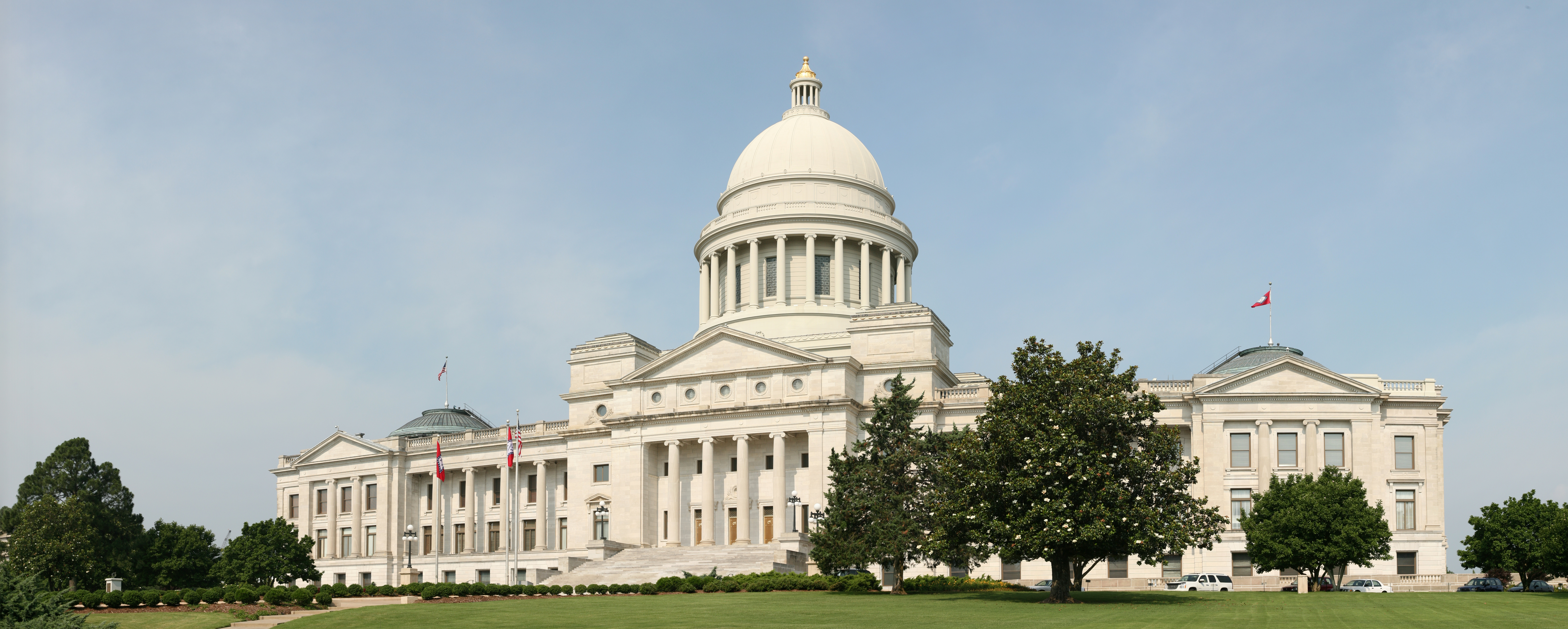 Arkansas State Capitol in Little Rock. Panoramic composite in spherical (equirectangular) projection from six portrait shots.